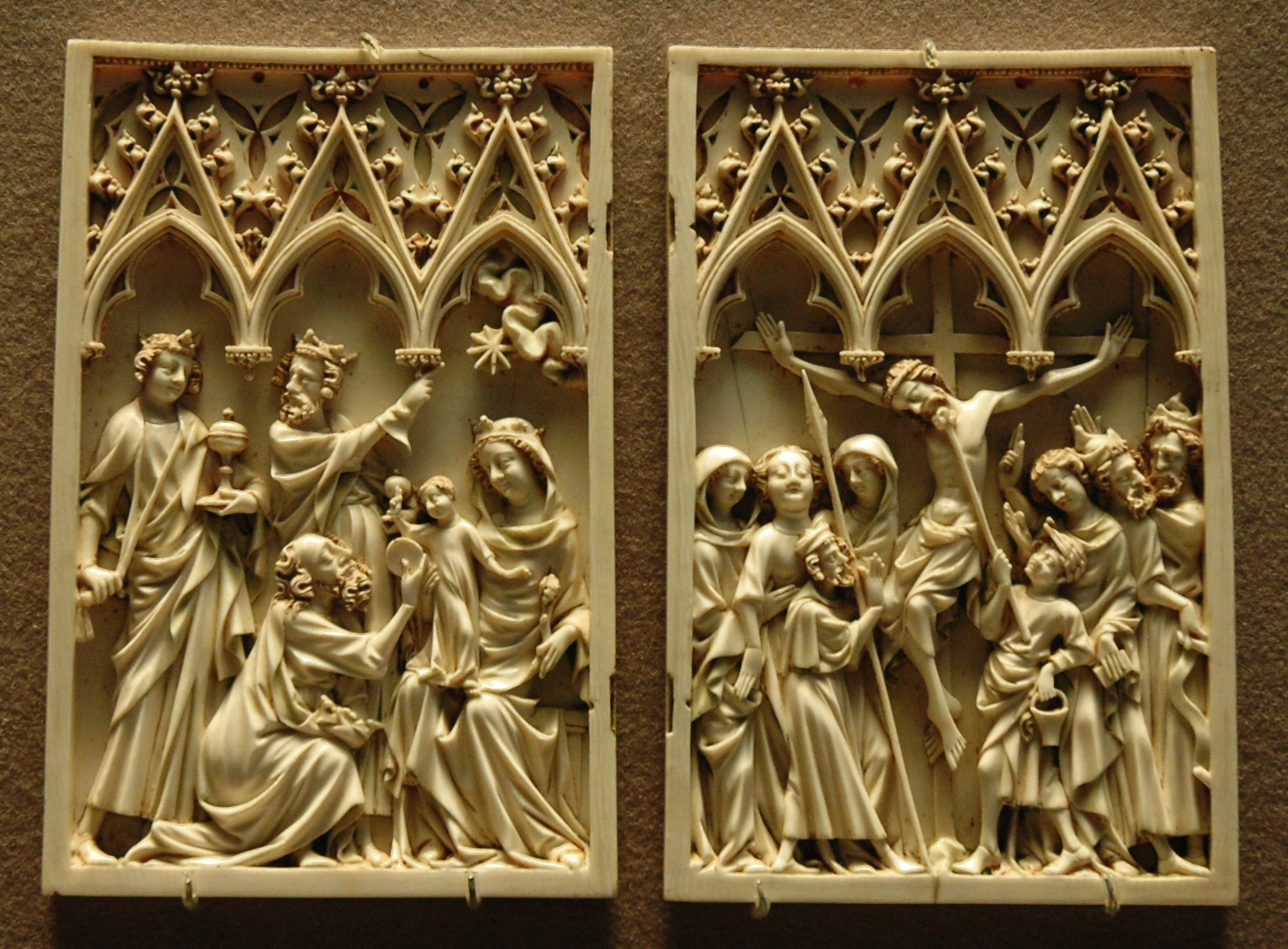 Adoration of the Christ Child and crucifixion. Polychrome ivory diptych from the Meuse valley, France, middle of the 14th century.